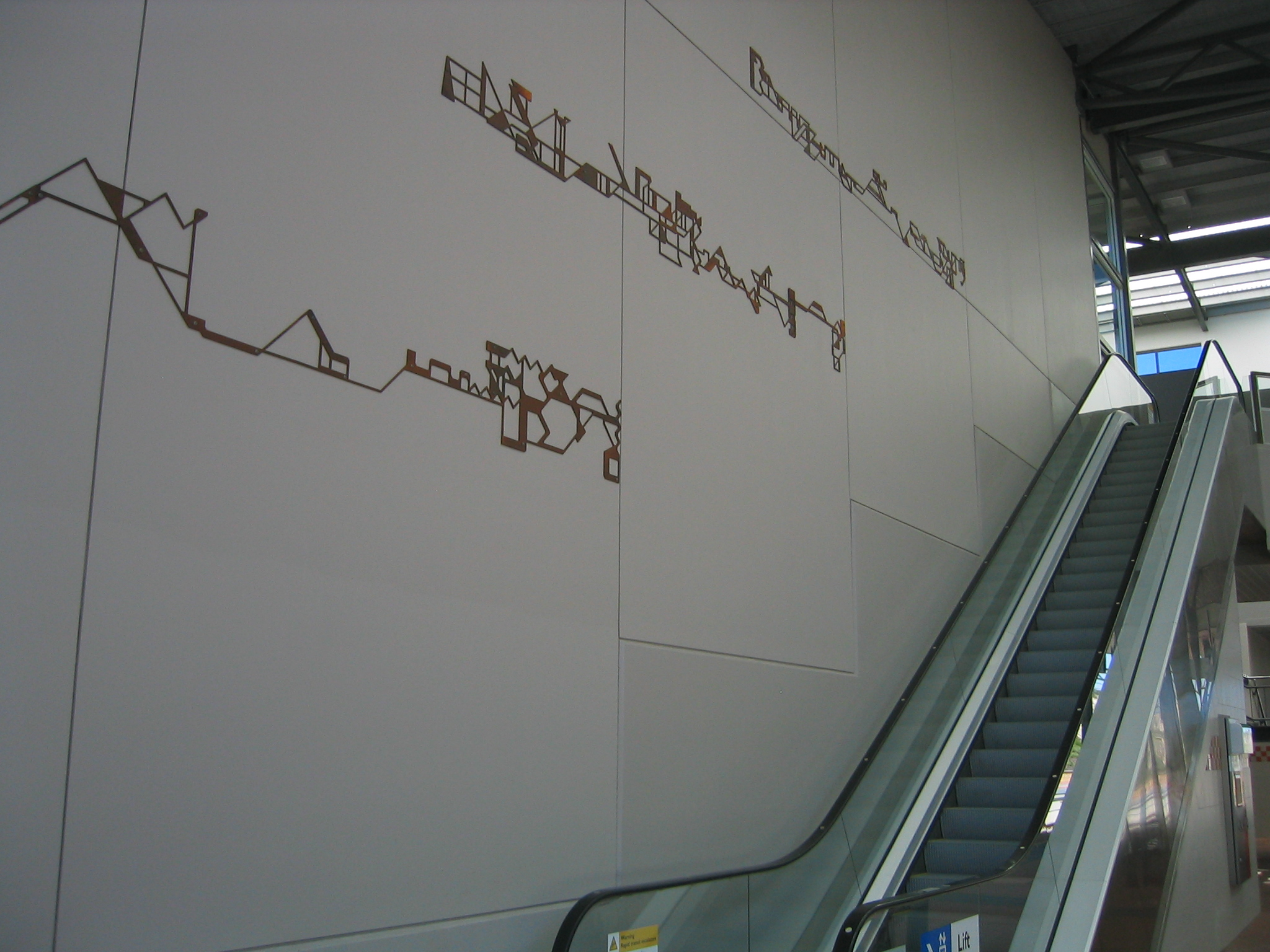 The station decoration of Kwinana Station, taken from the platform level of its station.